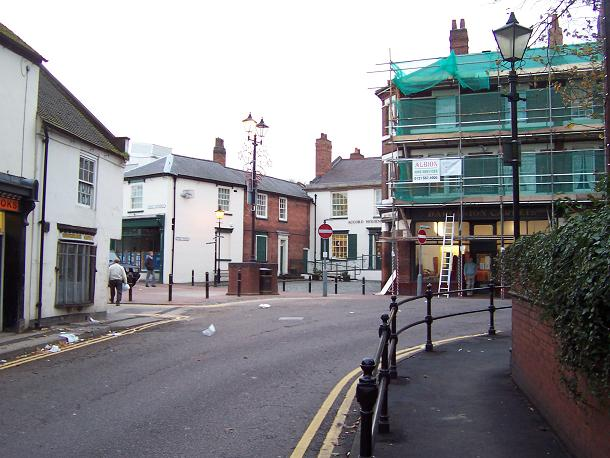 Darlaston. The lovely old centre of Darlaston is well worth a detour next time you're driving through the Black Country.